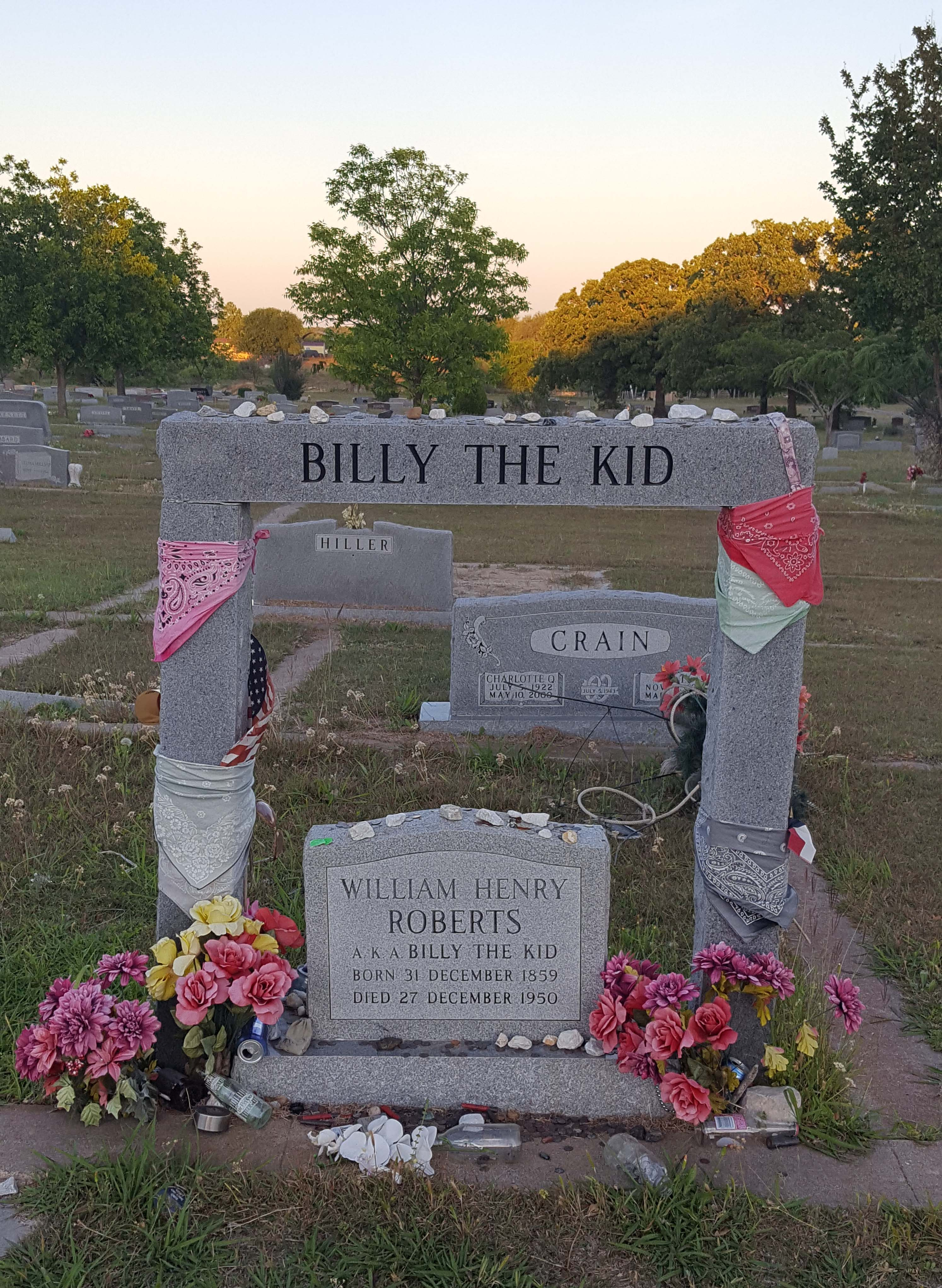 Gravesite of Brushy Bill Roberts, who claimed to be outlaw Billy the Kid, in Hamilton, Texas.